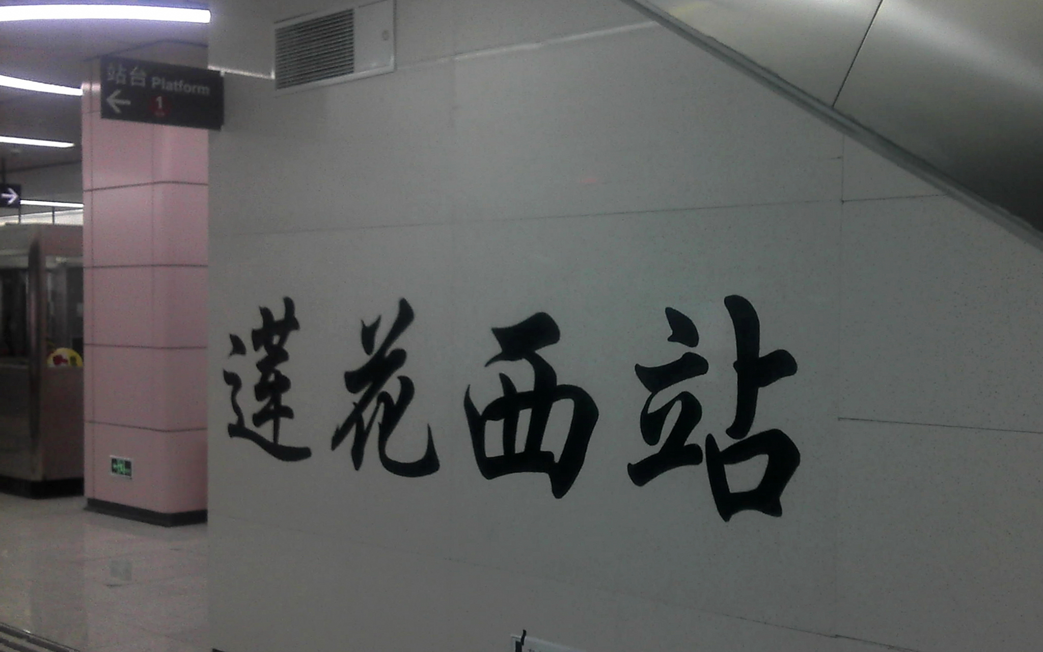 This photo was taken at September 18, 2011.